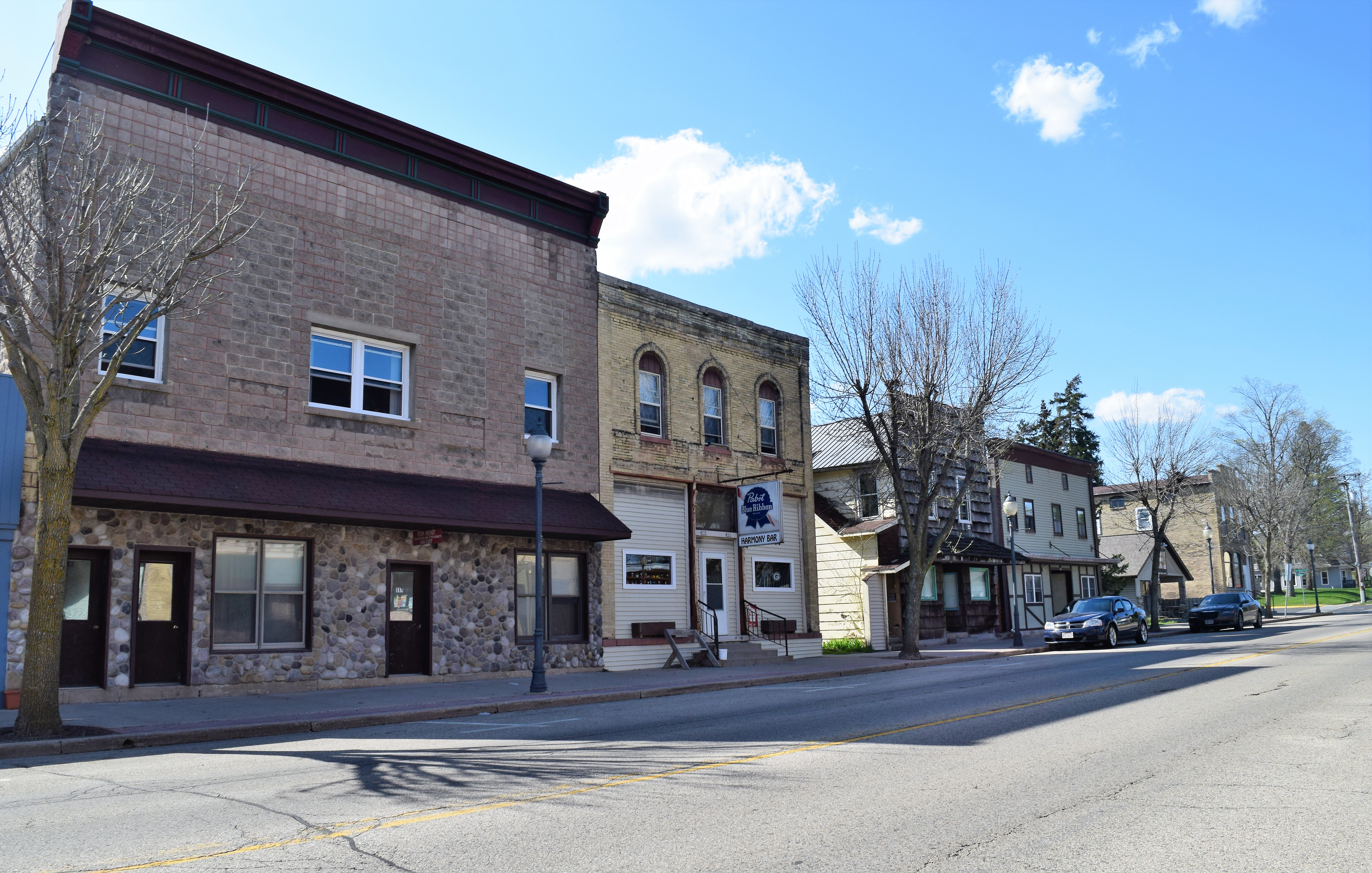 Buildings in downtown Poynette, Wisconsin.